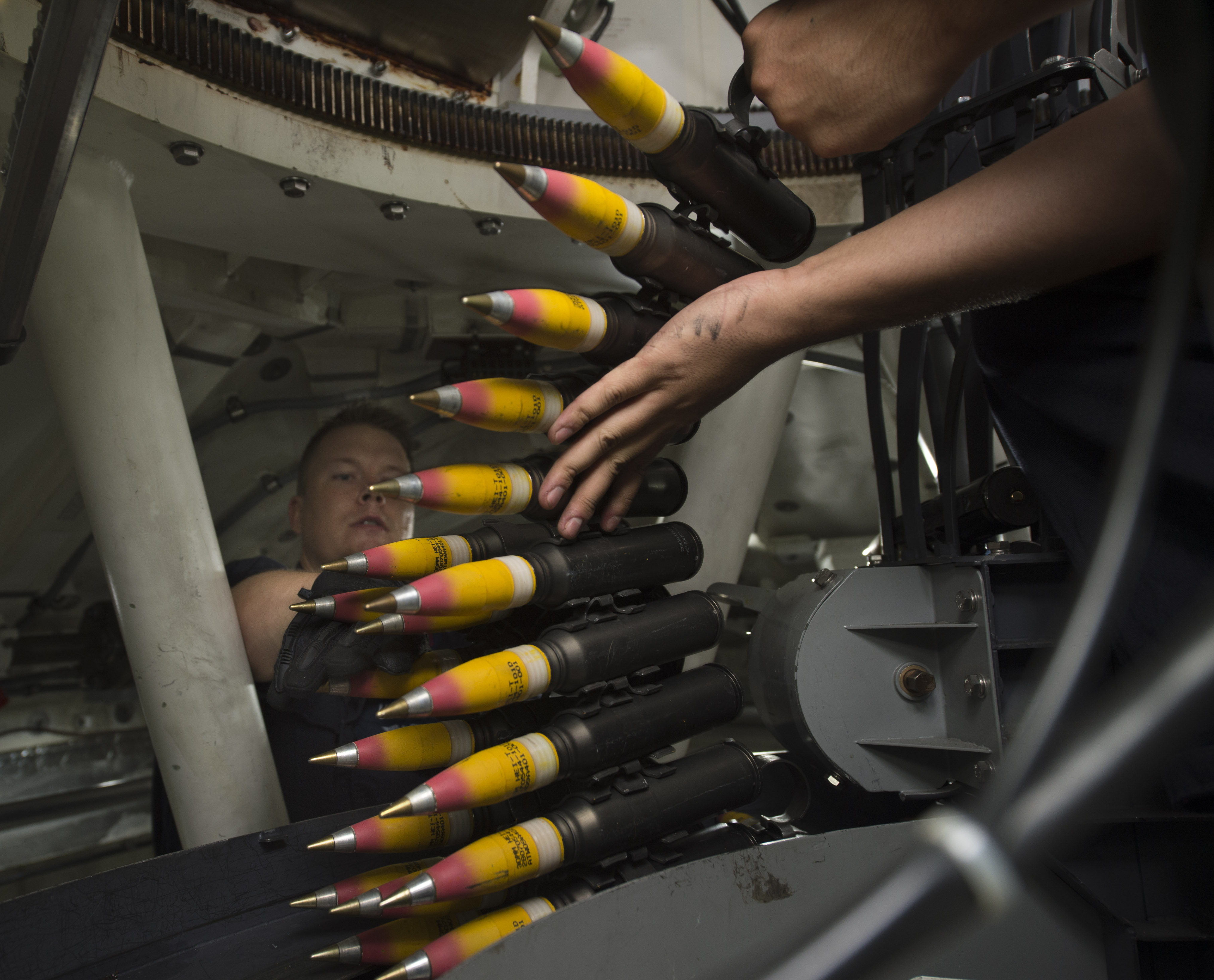 PACIFIC OCEAN (Dec. 2, 2014) Gunner’s Mate 2nd Class Andrew Thomasy and Fire Controlman 1st Class Waylon Clement, assigned to Surface Warfare Detachment 3, load high-explosive incendiary tracer (HEI-T) rounds into the ammunition feeder-can of a 30mm weapons system aboard the littoral combat ship USS Fort Worth (LCS 3). Currently on a 16-month rotational deployment in support of the Asia-Pacific Rebalance, Fort Worth is a fast and agile warship tailor-made to patrol the region's littorals and work hull-to-hull with partner navies, providing 7th Fleet with the flexible capabilities it needs now and in the future. (U.S. Navy photo by Mass Communication Specialist 2nd Class Antonio Turretto)